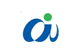 Flag of Ainan Ehime